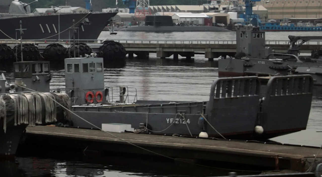 Two Japanese LCMs tied up at Yokosuka naval base (YF 2124 in front).